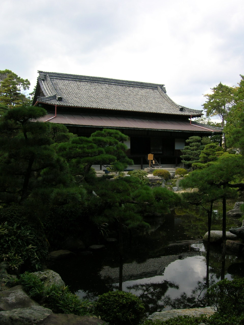 Moroto-shi Teien (The Moroto garden - Seiroku Moroto 1st's Residence, Distant view of palace.) Loc: Kuwana city, Mie Prefecture, Japan 諸戸氏庭園 (旧・初代 諸戸清六邸) 池の反対側から見た御殿 撮影場所 三重県桑名市